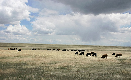 Nunn, Colorado - Yearling steers grazing on an experimental research pasture of the ARS Central Plains Experimental Range, part of the Central Plains Biosphere Reserve.